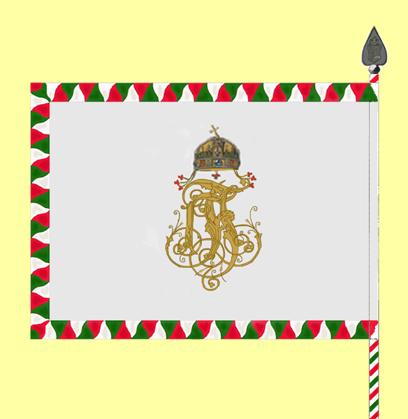 Colors of the royal Hungarian Land Forces revers (common to all units!)